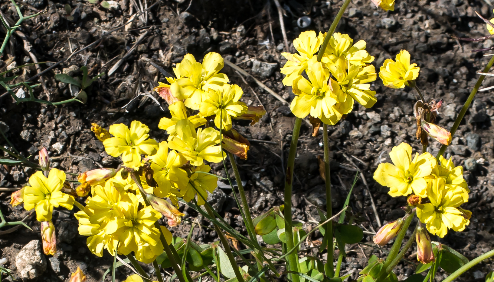 Oxalis pes-caprae f. pleniflora**, Canary Islands